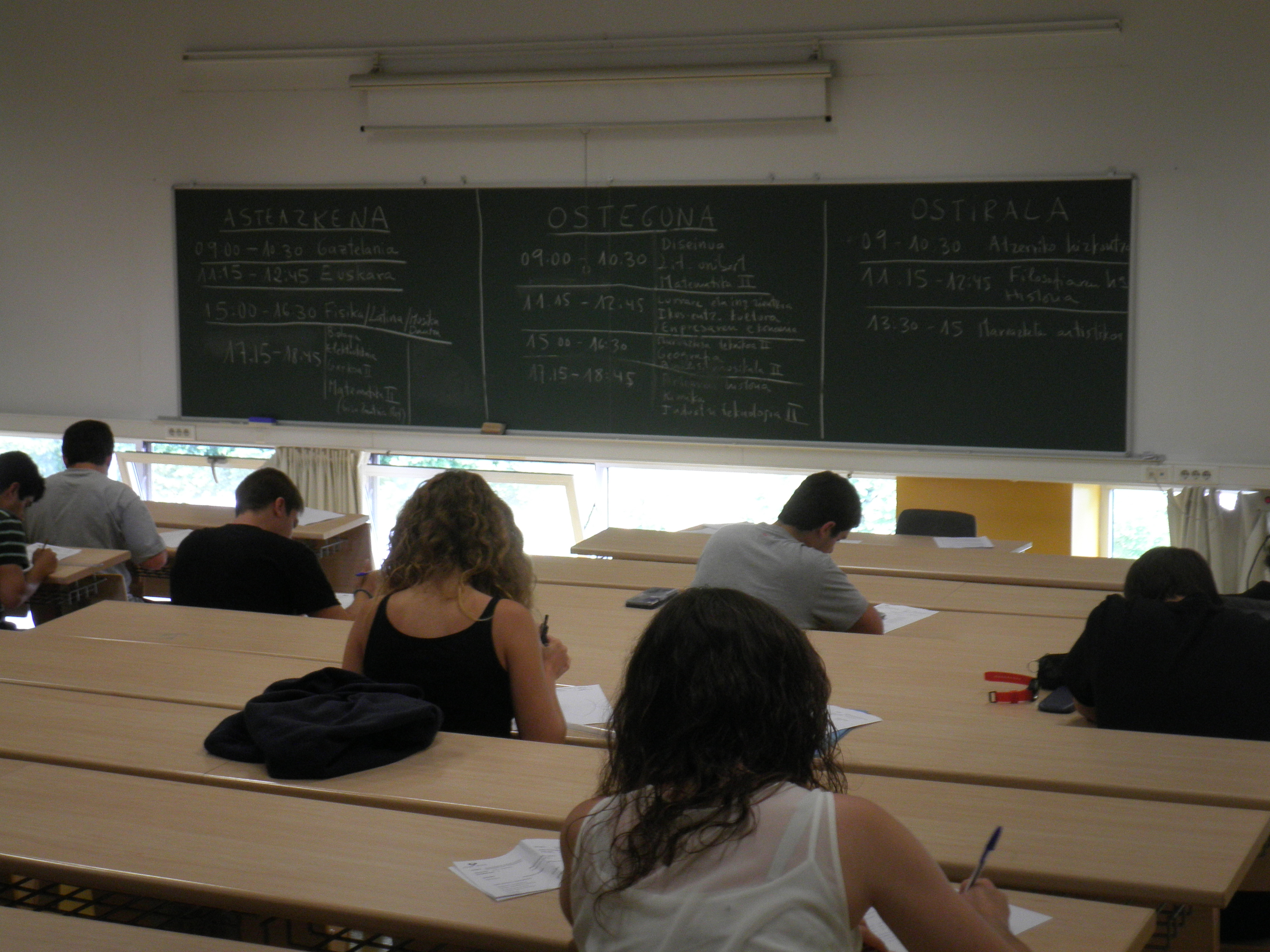 Selektibitatea Donostiako Aulategian. Arbelan, azterketen ordutegia.